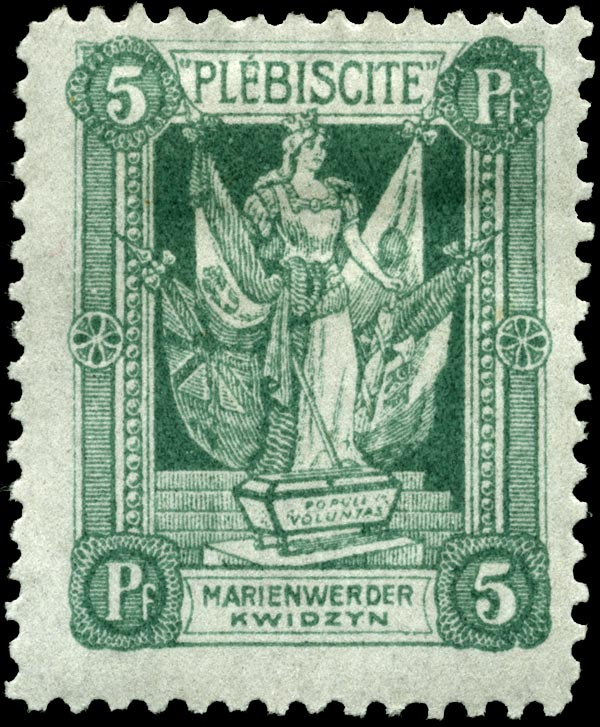 Marienwerder 5-pfennig stamp of 1920, second version of inscriptions